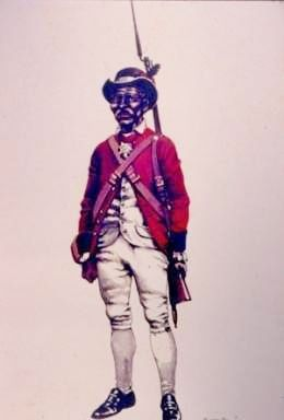 Dominico-Haitian chief military commander, who was in charge of the Battalion 31 and freed slaves which joined the ranks of the Dominican army.